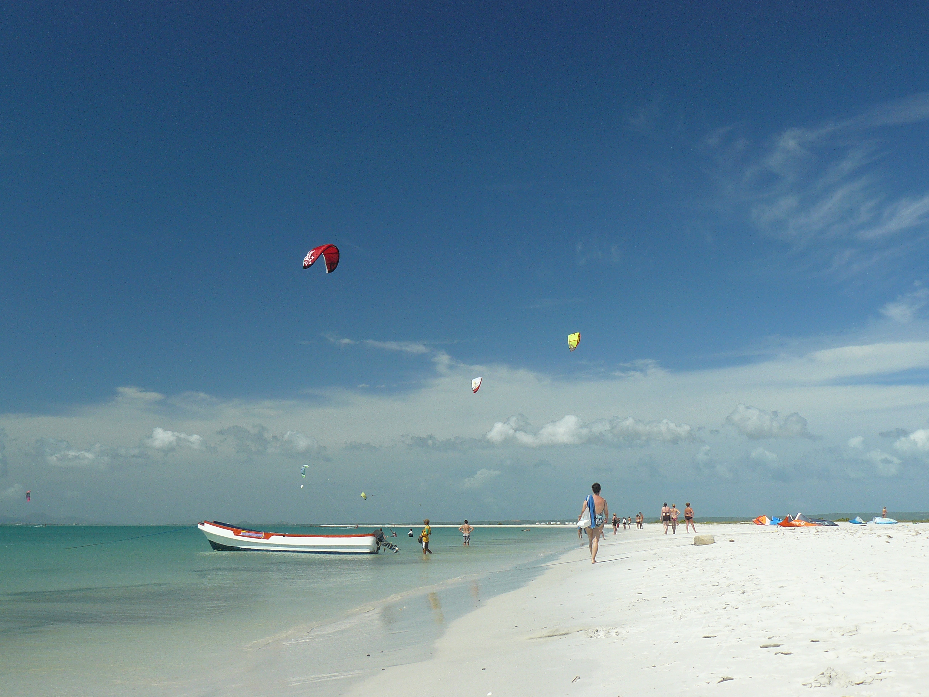 Kite Surfing in Coche Island. Nueva Esparta State, Venezuela